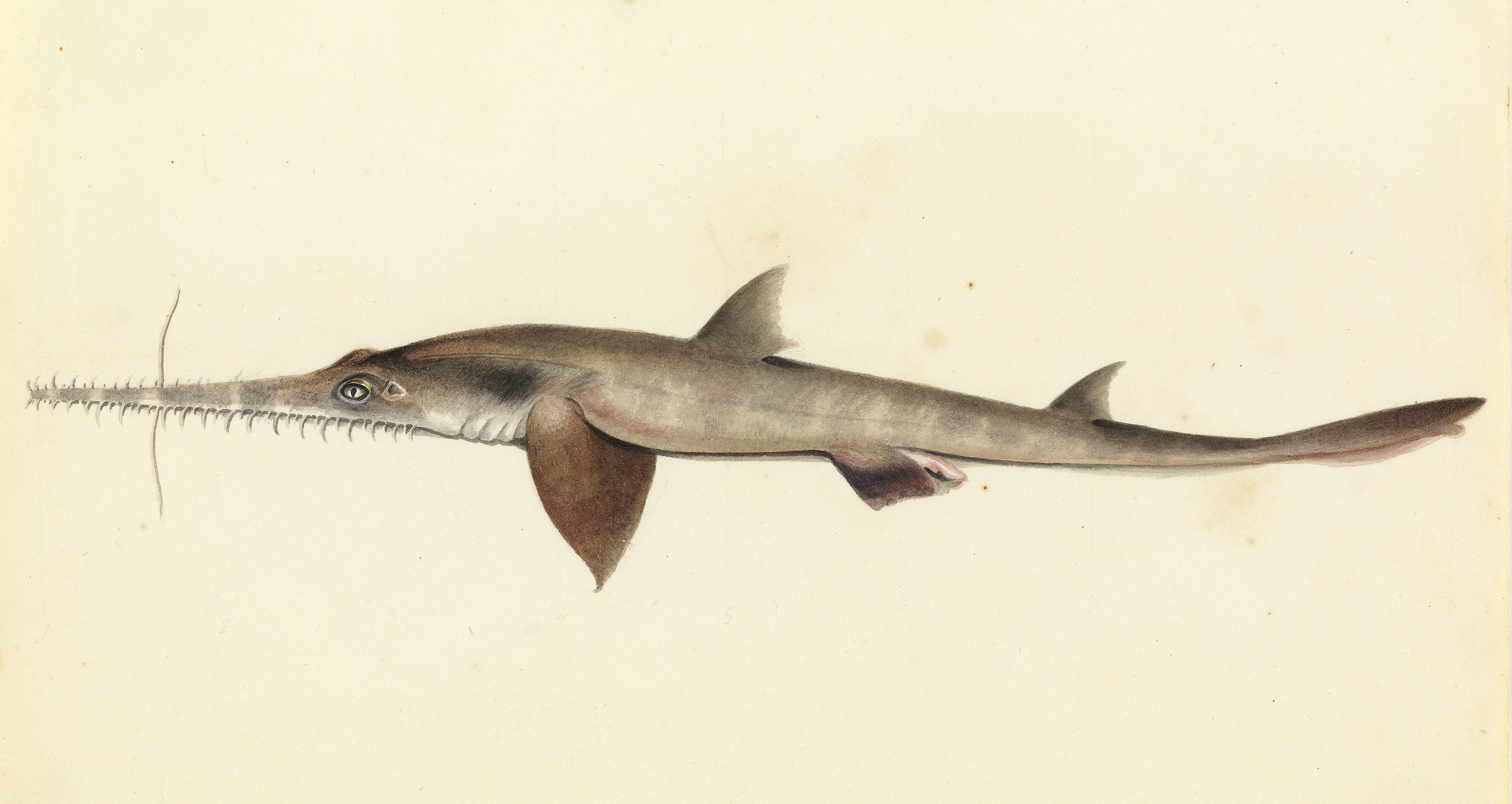 Sketch 25. (Longnose) Saw shark (Pristiophorus cirratus) watercolour on paper sketch from the Sketchbook of fishes by Van Diemonian (Tasmanian) artist and convict William Buelow Gould (1801 - 1853). Produced c1832 as part of a thirty-six image still life sketchbook of fishes while Gould was a convict on Sarah Island at the Macquarie Harbour Penal Station. Probably done for Dr William De Little. Actual size 185 x 227 mm. This version is cropped to the main image.